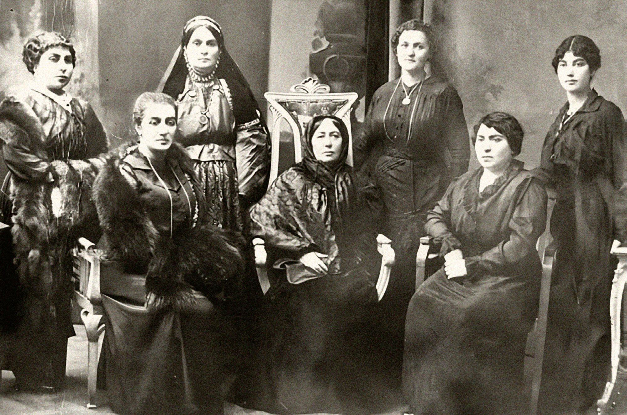 Azeri women of the Caucasus Muslim Benevolent Society. Tiflis, 1910. From left to right: Salatyn Ahmadova, Govhar Gajar, Nisa Novruzova, Saadat Gayibova, Kamila Subhangulova, Najabat Zeynalova, Sara Atamalybeyova.